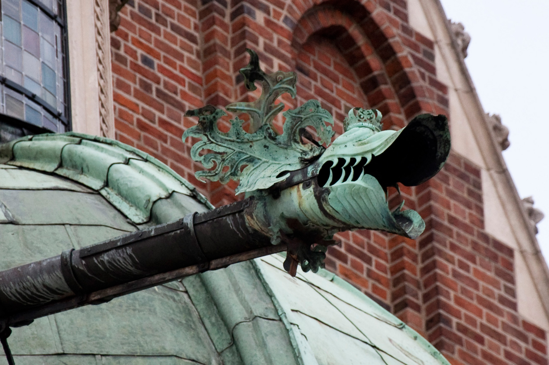 Gargoyle, Wawel Cathedral, Kraków